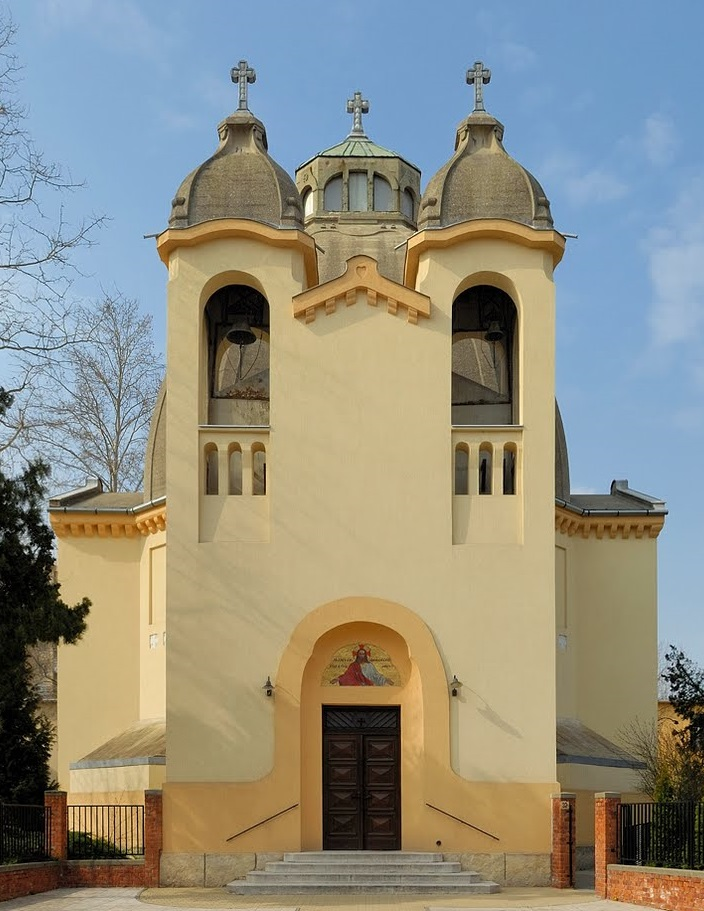 Sacred Heart Church in Székesfehérvár, Hungary. Built in 1910-1911, made of concrete.